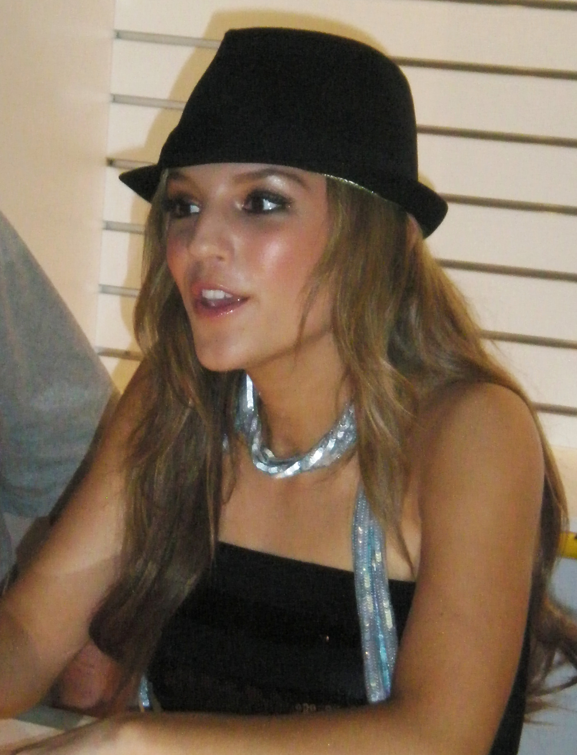 Jordan Pruitt signing autographs after a performance of the 2008 Tour of Gymnastics Superstars in San Jose, California.